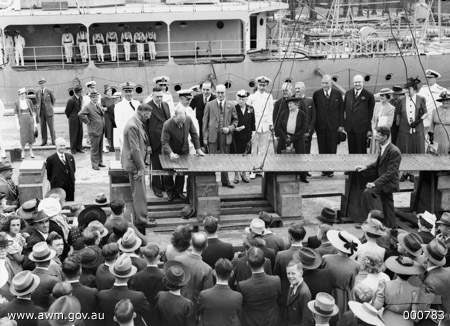 Sir Frederick Stewart puts a rivet in the keel of HMAS Bathurst at the official keel laying ceremony at Cockatoo Dockyard, Sydney.